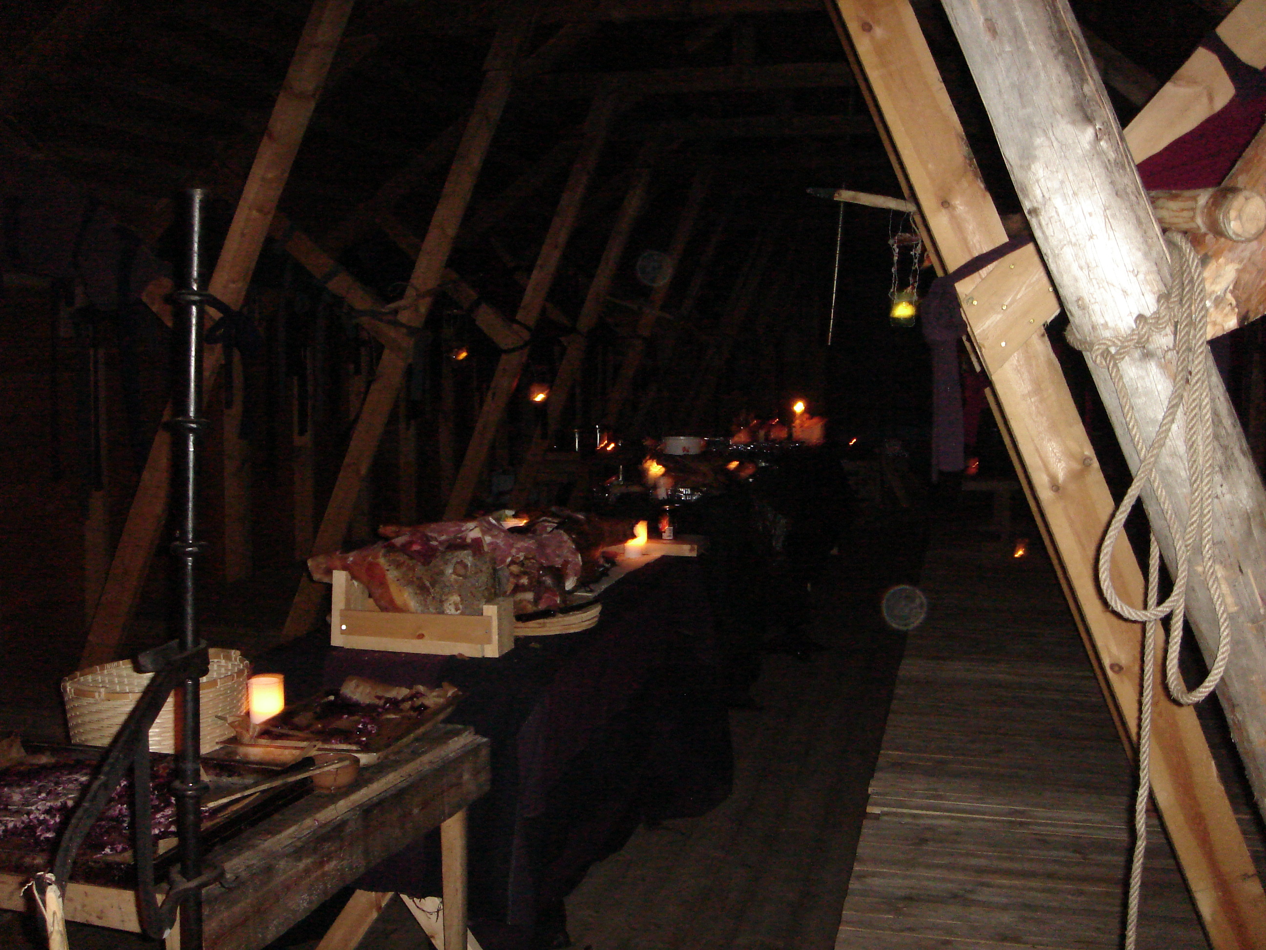 Cinderhill Long House Interior, from the fictive world of Dragonbane